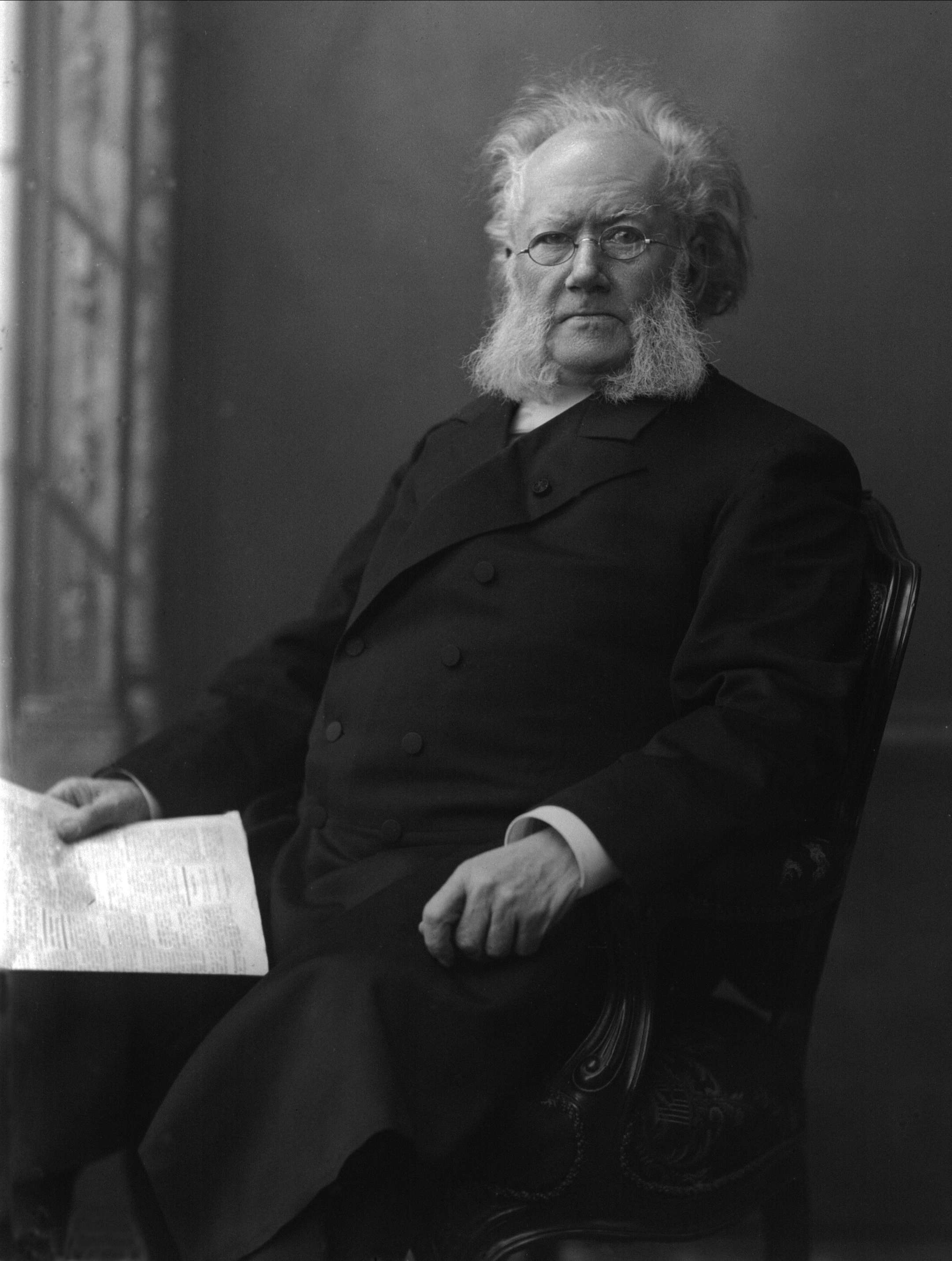 Portrait of Henrik Ibsen